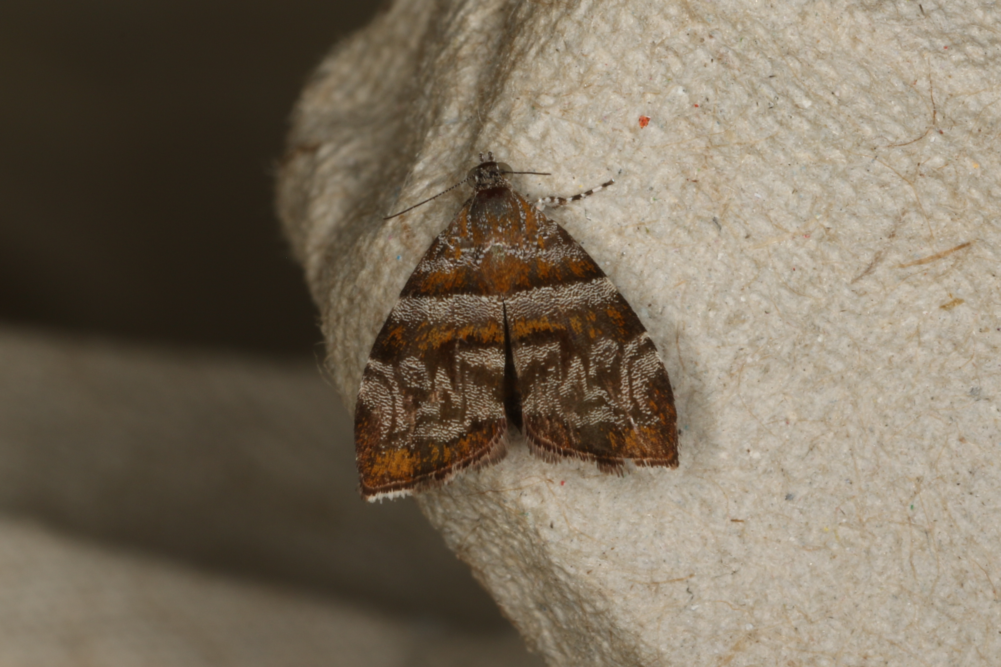 Choreutis periploca (Turner, 1913), to actinic light, Clump Point, Mission Beach, Queensland, 13/14 January 2016